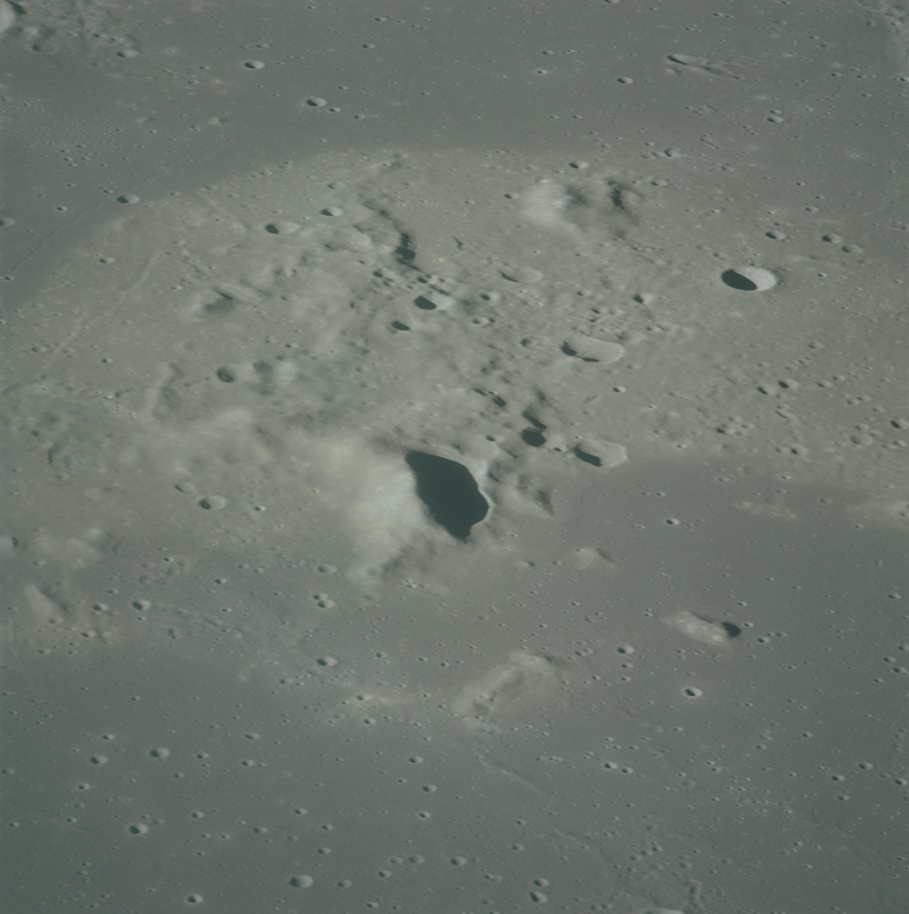 Oblique view of "the helmet" (informal term used by Apollo 16 crew), a highland mass in southern Oceanus Procellarum, facing south, on the moon.